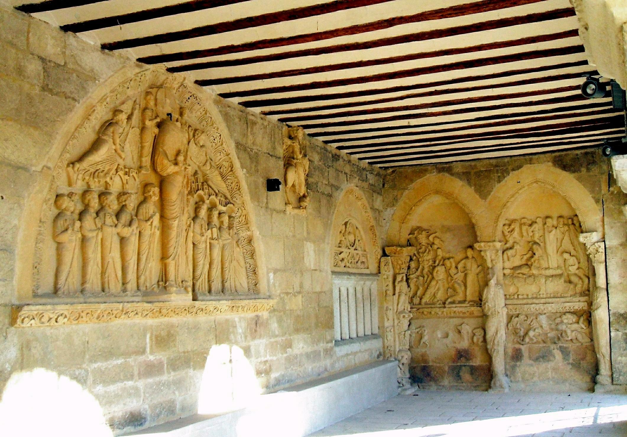 Tímpanos y relieves románicos del siglo XII empotrados en el pórtico de la Basílica de San Prudencio de Armentia, en Vitoria-Gasteiz (Álava, País Vasco, España)